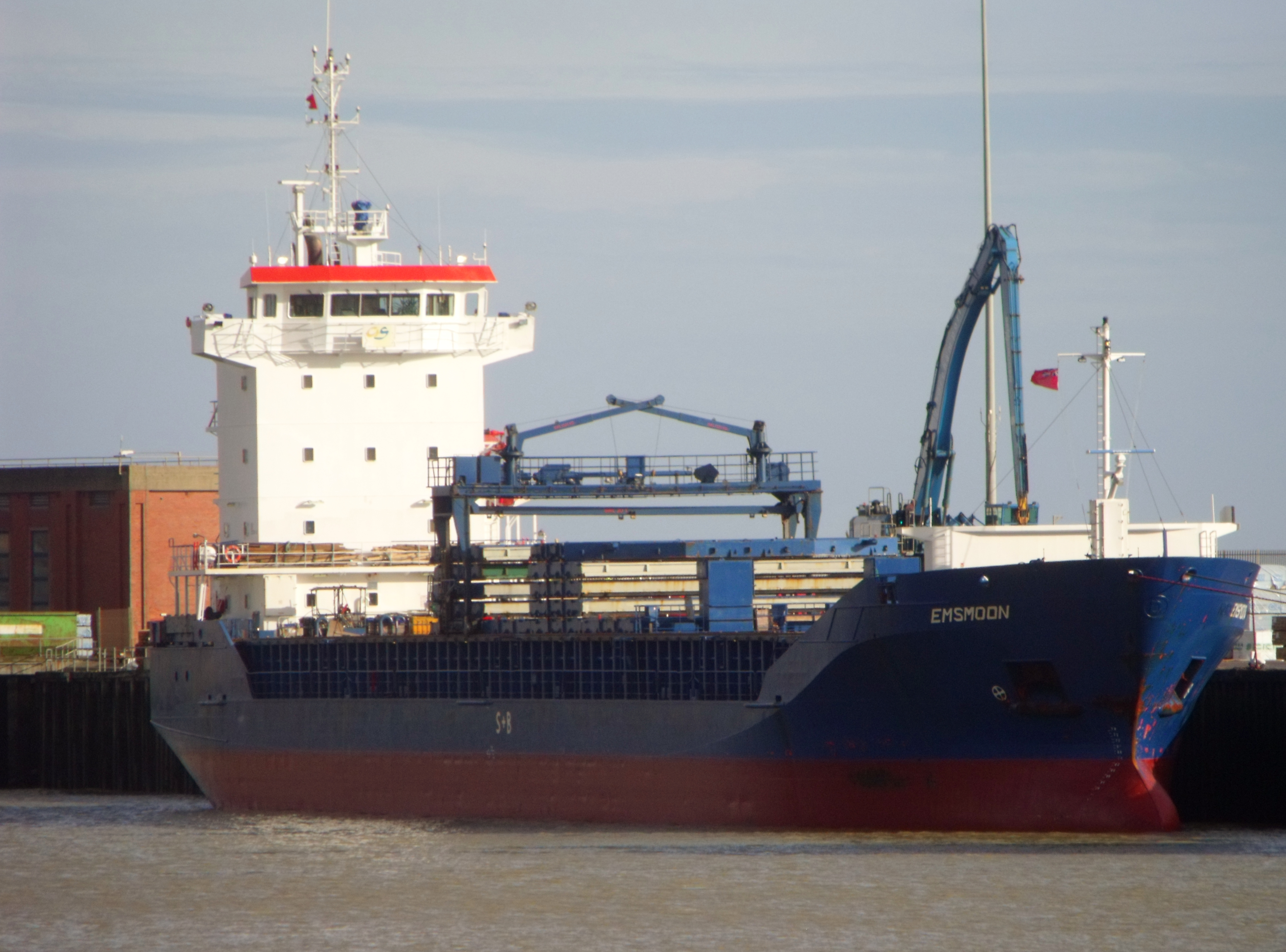 At Shoreham Harbour.